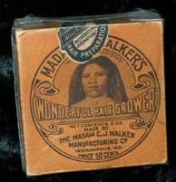 The object in this image is within the permanent collection of The Children’s Museum of Indianapolis